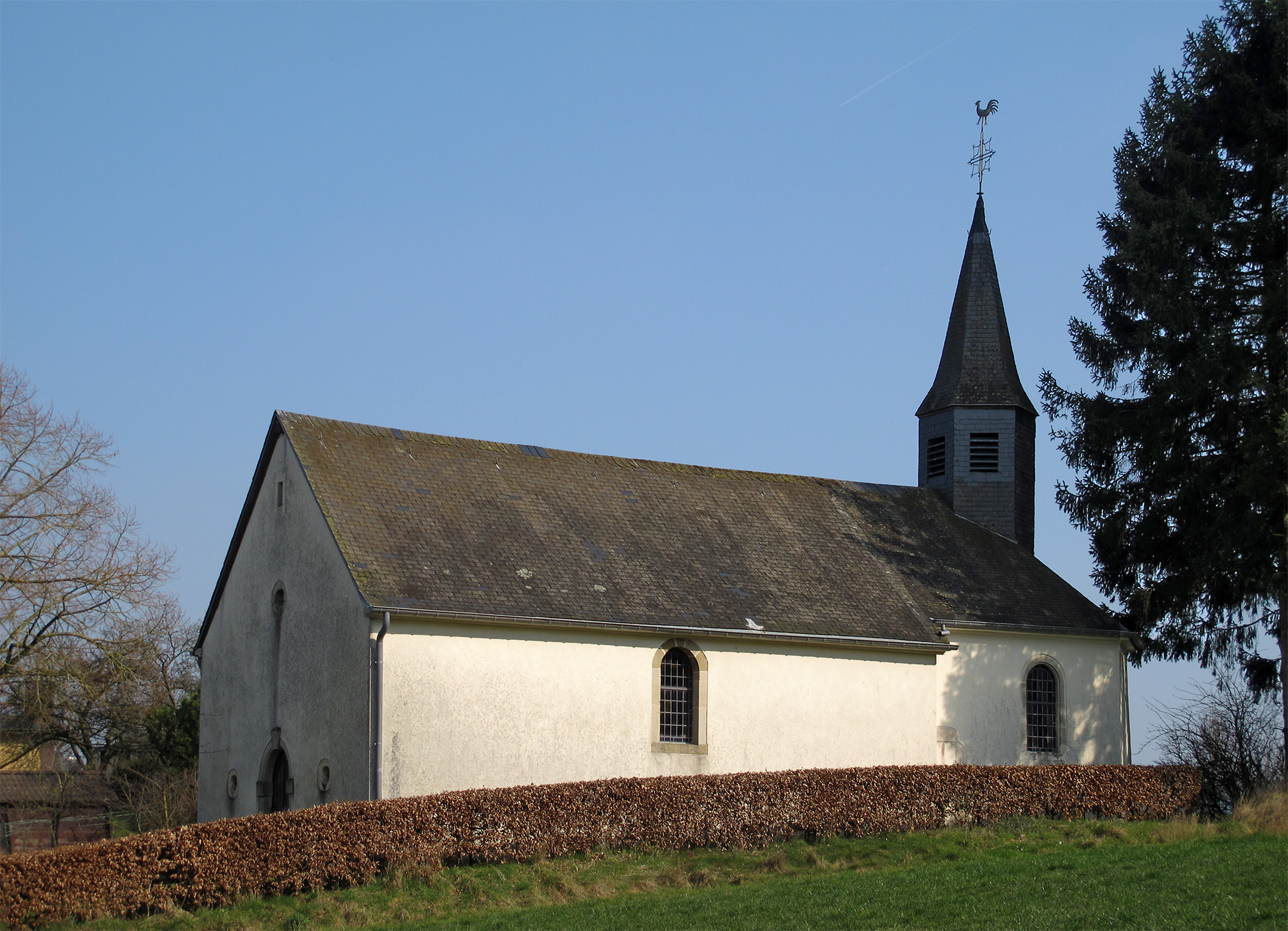 Chapel of Schweich, Luxembourg